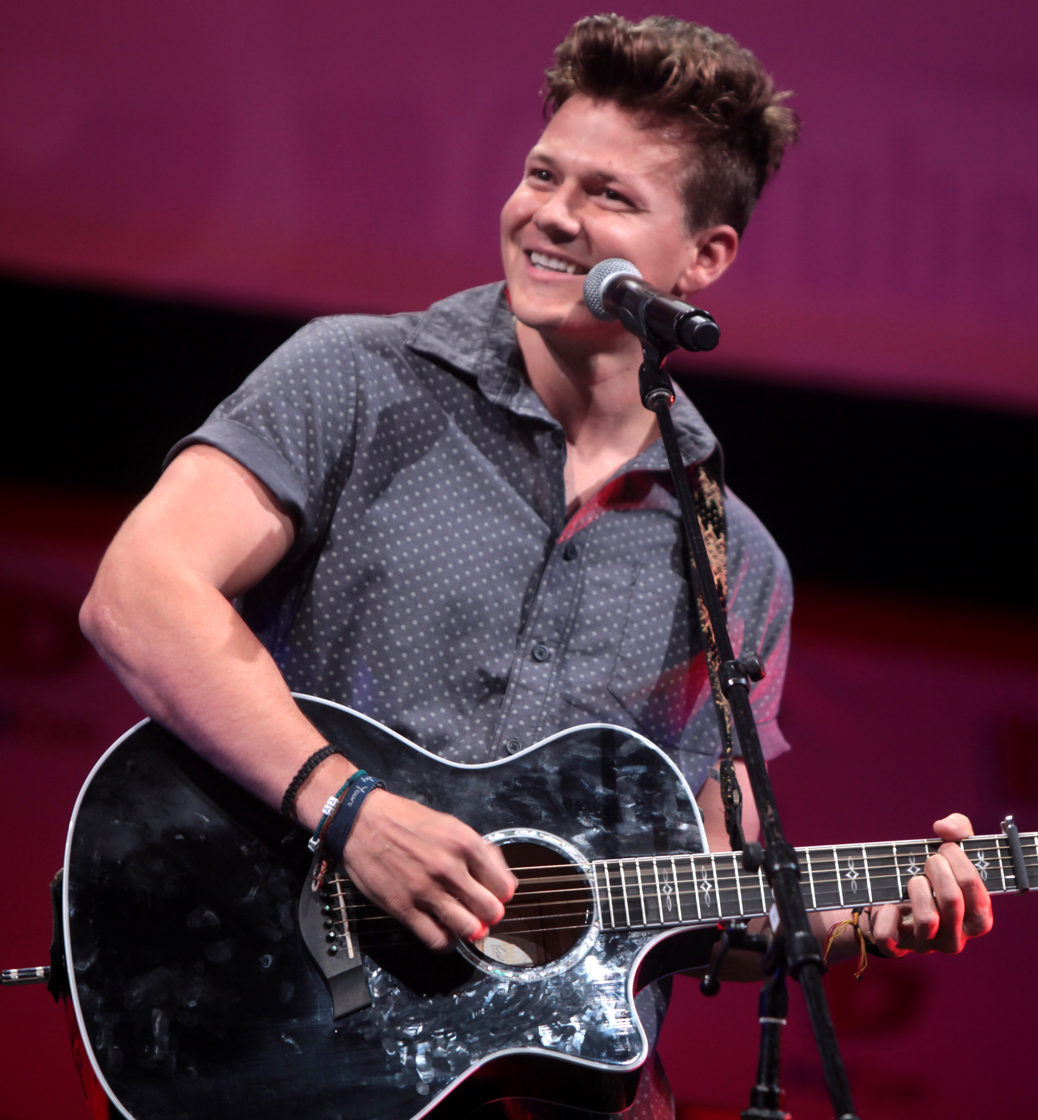 Tyler Ward speaking at the 2014 VidCon on June 28, 2014.